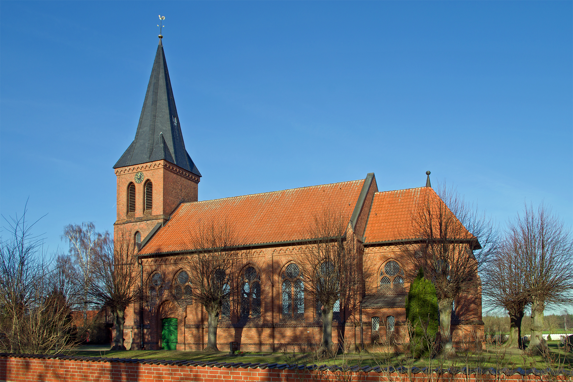 Church of the small village Lanze (district Lüchow-Dannenberg, northern Germany).